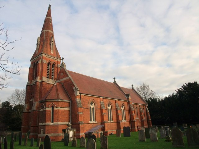 All Saints parish church, Winthorpe, Nottinghamshire, seen from the southwest